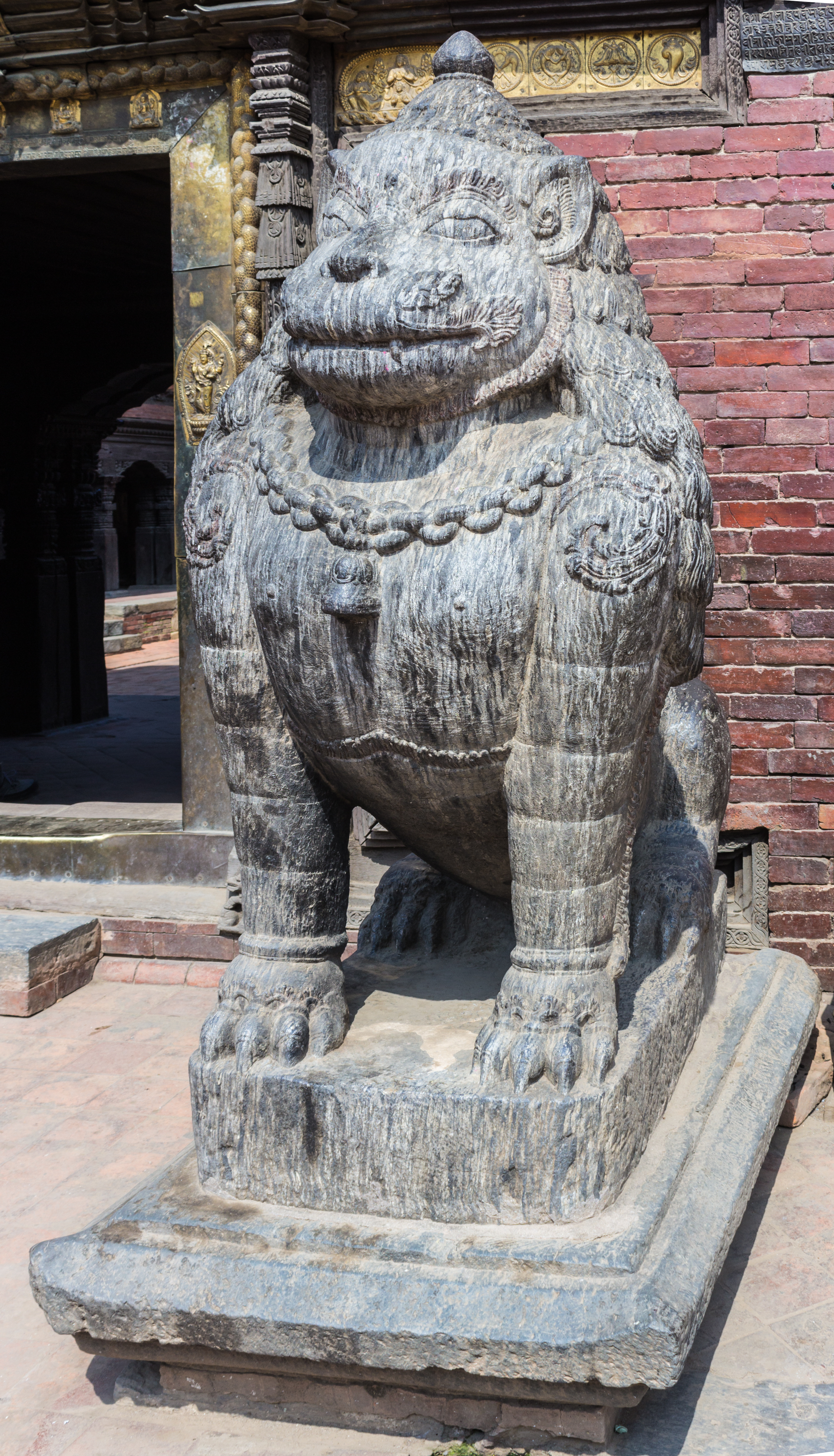 Statue of Lion in Entrance of Patan Museum.